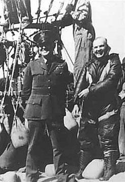 Capt. Hawthorne C. Gray (in flight suit) prior to his balloon ascent on March 9, 1927. Gray would subsequently die during another balloon flight on November 4, 1927.